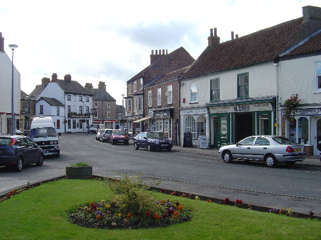 Market Place, Pocklington, East Riding of Yorkshire, England.Although preferred the first posting for this gridsquare, this picture - taken from beside the war memorial in front of the post office - gives a better sense of the layout of the town centre.